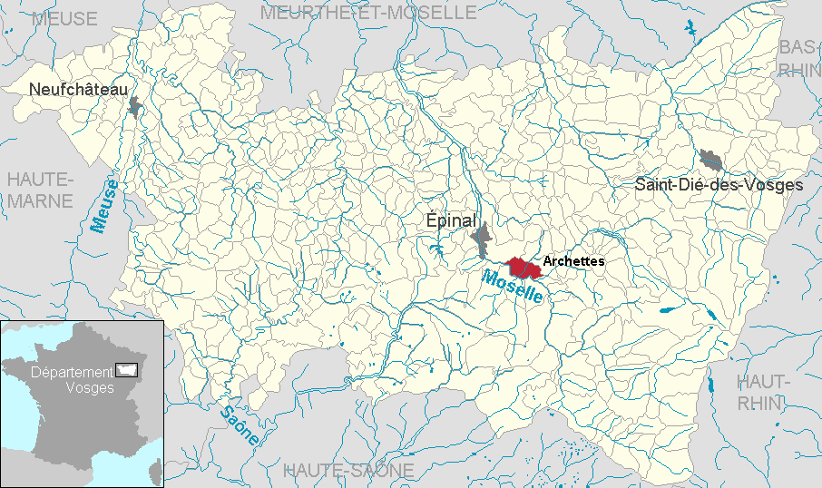 Archettes in the department of Vosges, Lorraine, France